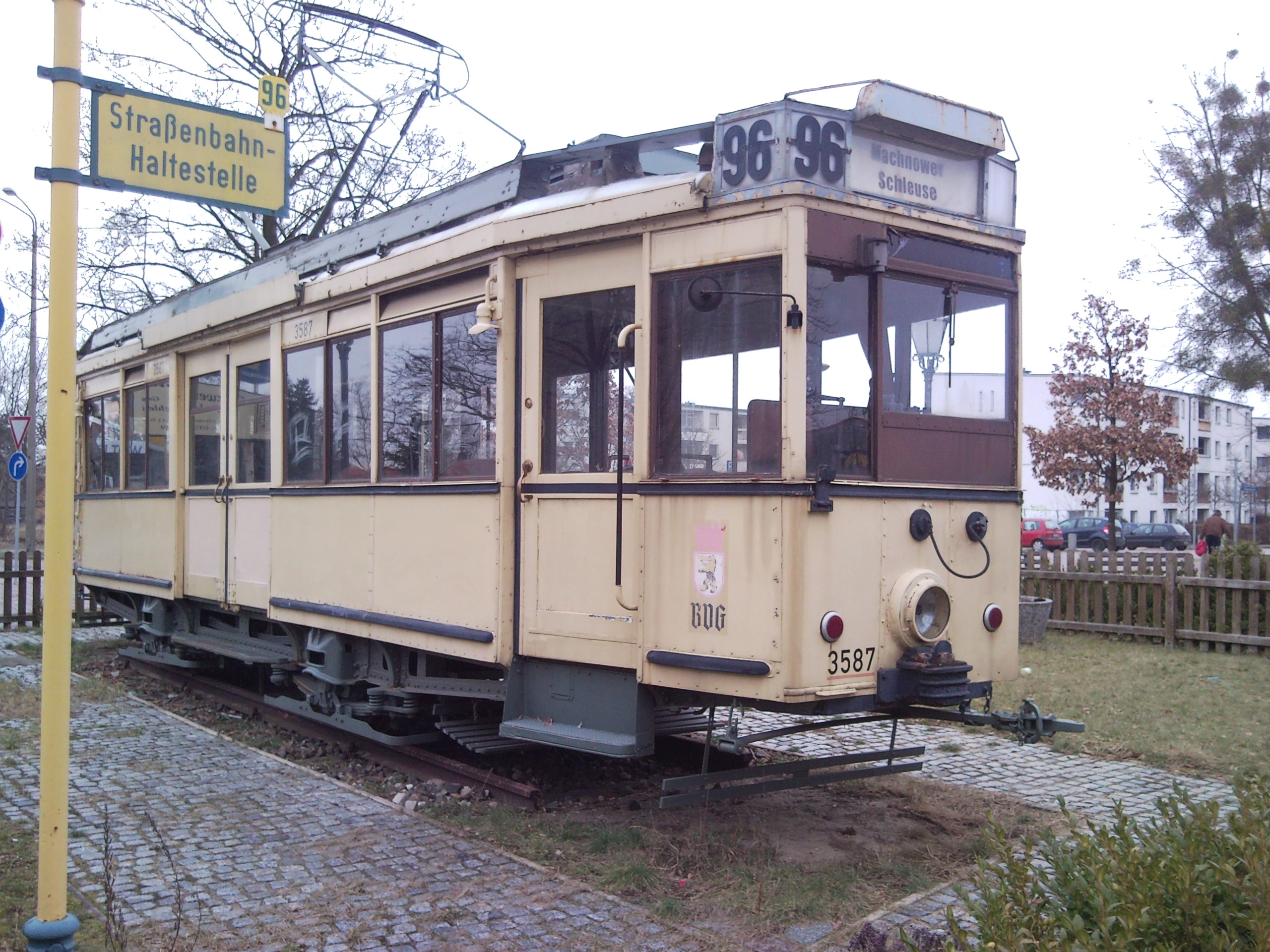 Historical tramline 96 in Teltow